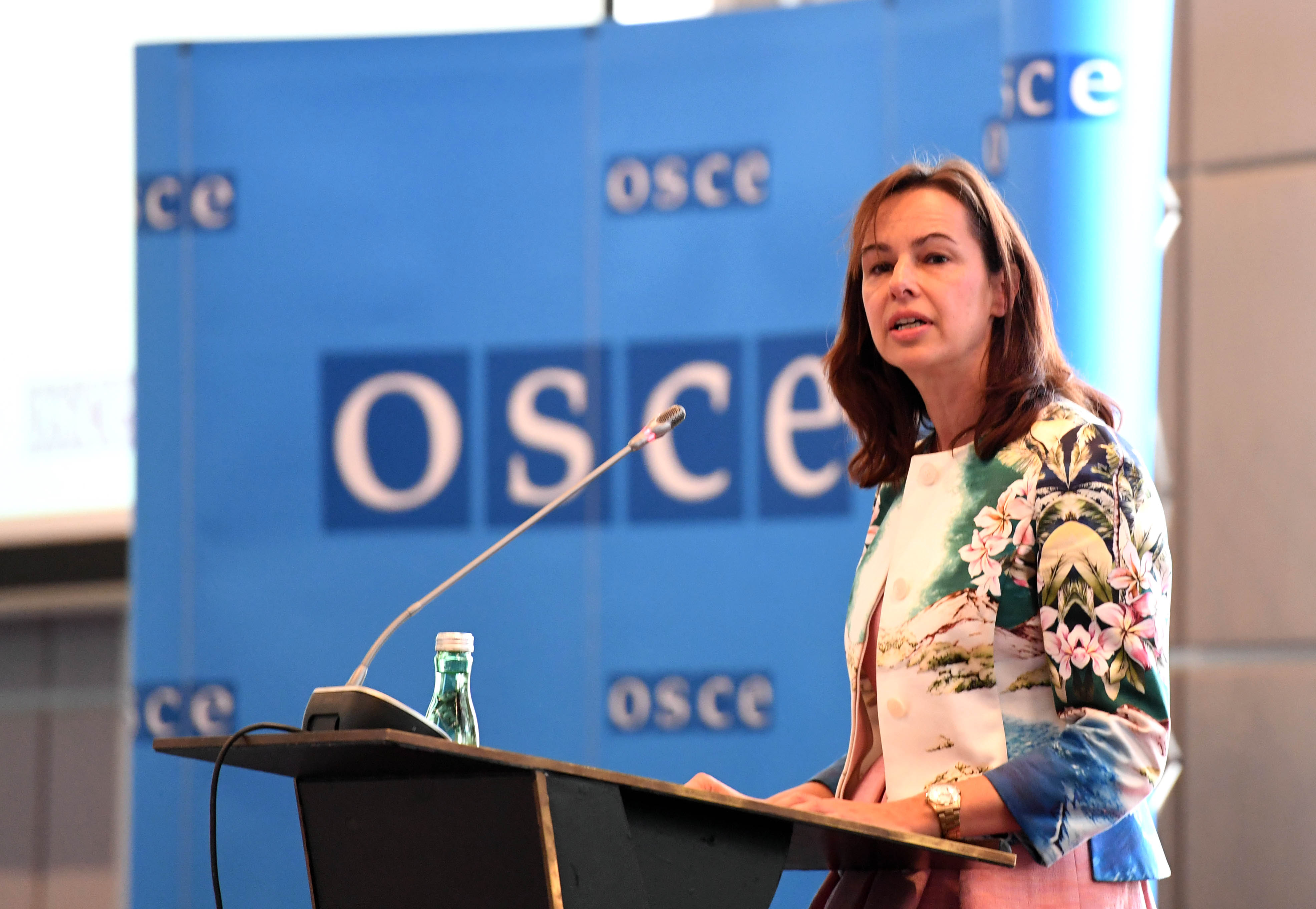 This photo taken from the 2017 2nd OSCE Gender Equality Review Conference where participants discussed the Action Plan for the Promotion of Gender Equality.